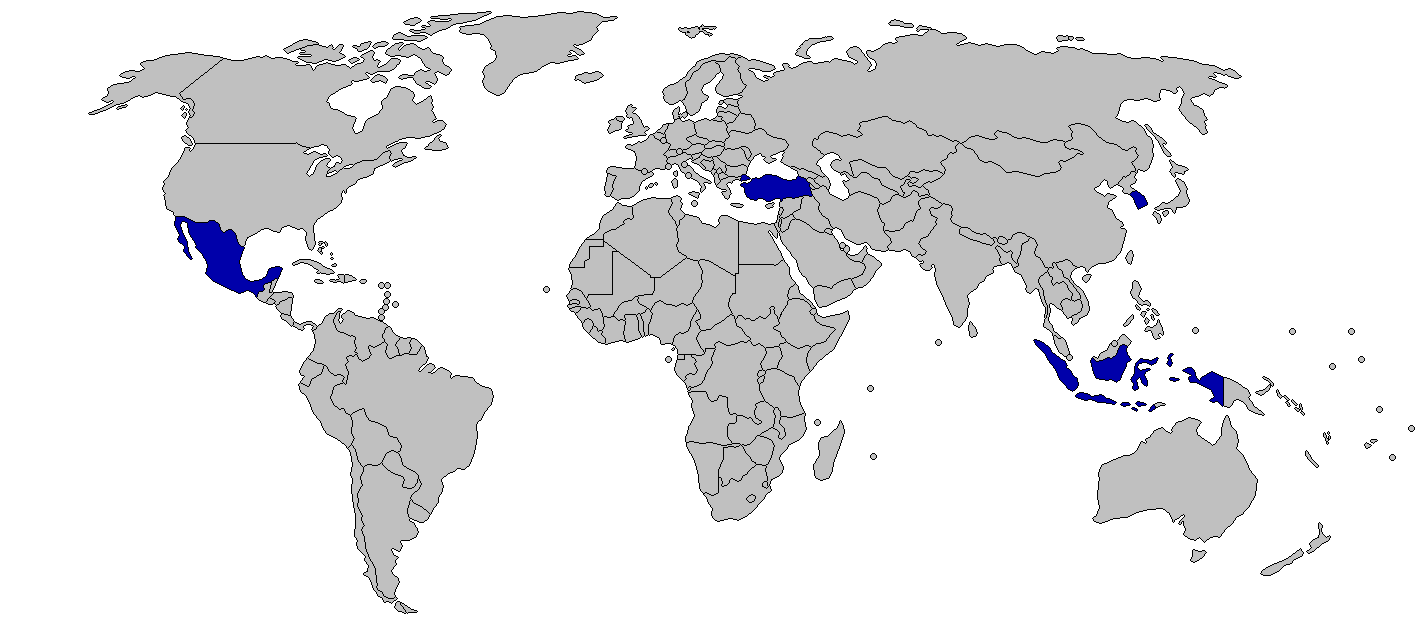 MIKT countries (Mexico, Indonesia, South Korea, Turkey)